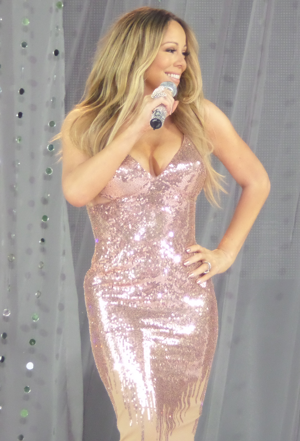 Mariah Carey performing on Good Morning America (May 24, 2013).